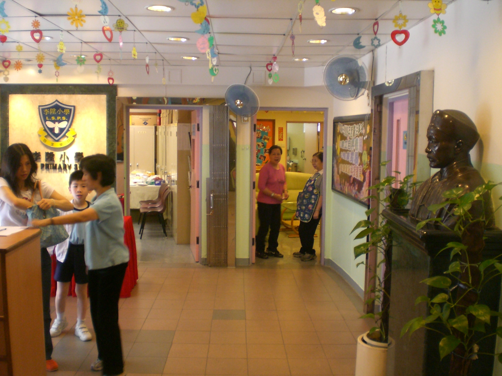 Description= 李陞小學 2007年4月28日(星期六) 開放日 Source= self-made Author= ManHamTUNG